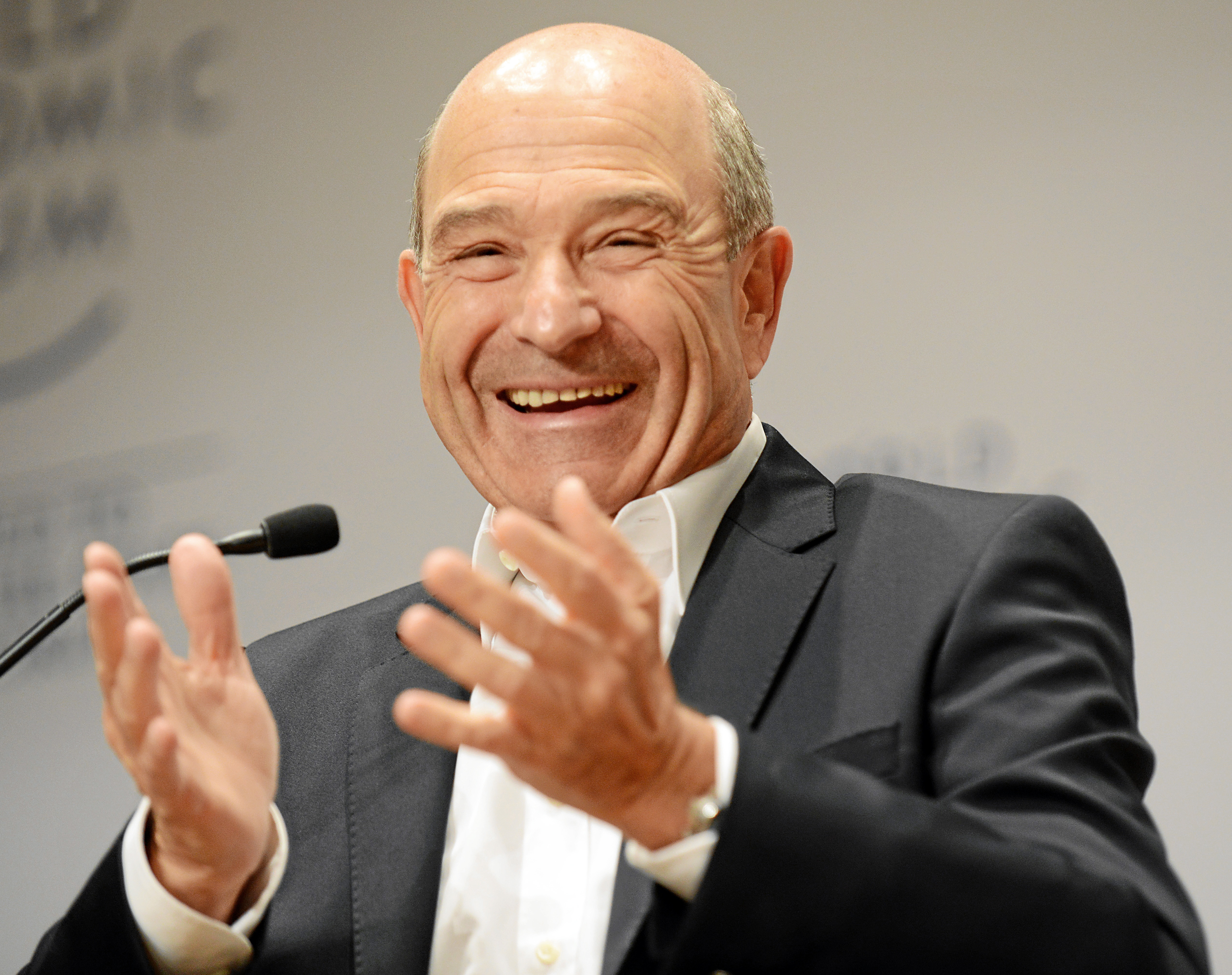 DAVOS/SWITZERLAND, 24JAN13 - Peter Sauber of Sauber Forrmula One Team, Switzerland smiles during the interactive session 'Open forum: Mega Sporting Events - In Whose Interest?' at the Annual Meeting 2013 of the World Economic Forum at the Swiss alpine high school in Davos, Switzerland, January 24, 2013.. . Copyright by World Economic Forum. . Michael Wuertenberg